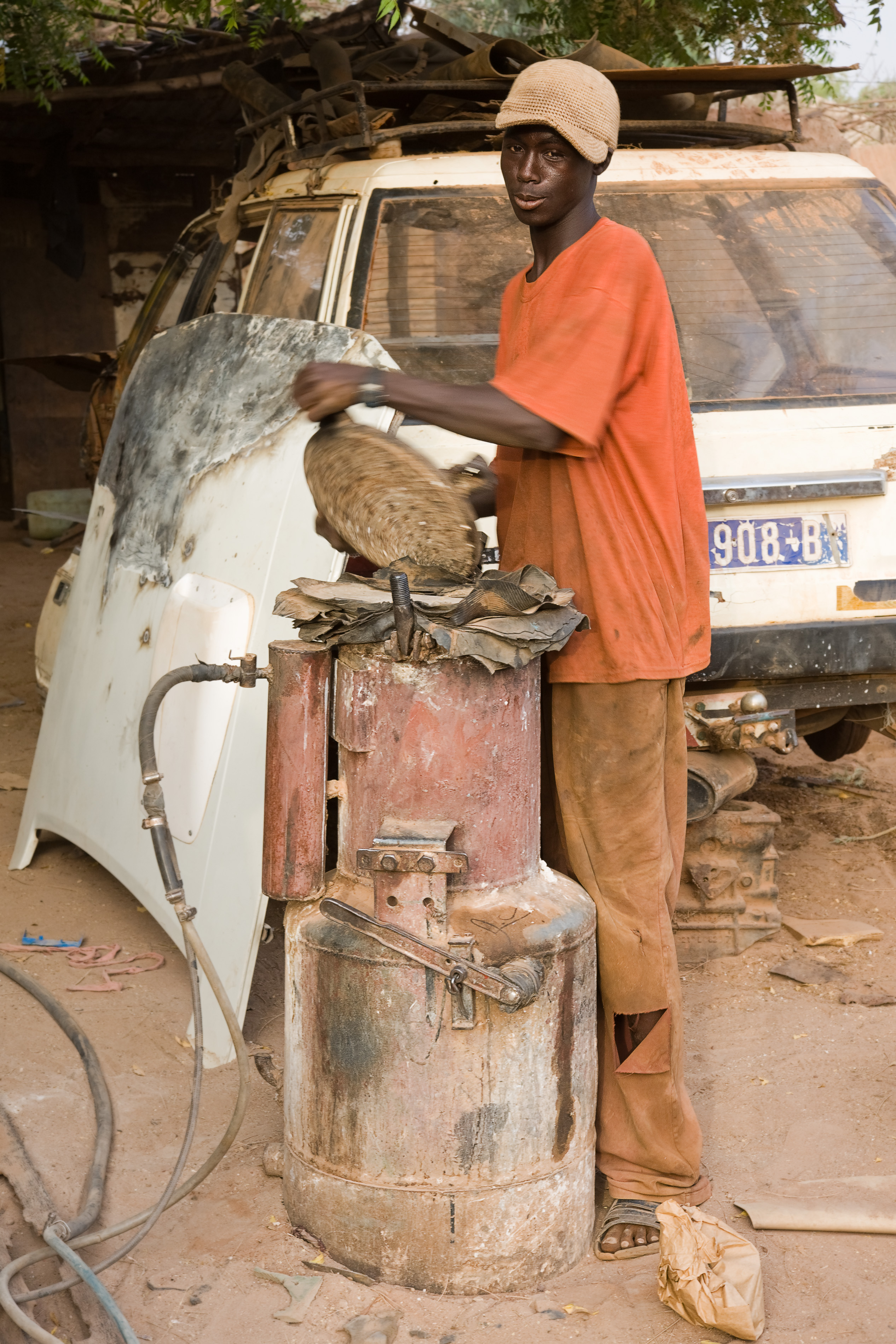 A car body shop worker refueling an acetylene generator unit. (Farafenni/The Gambia)